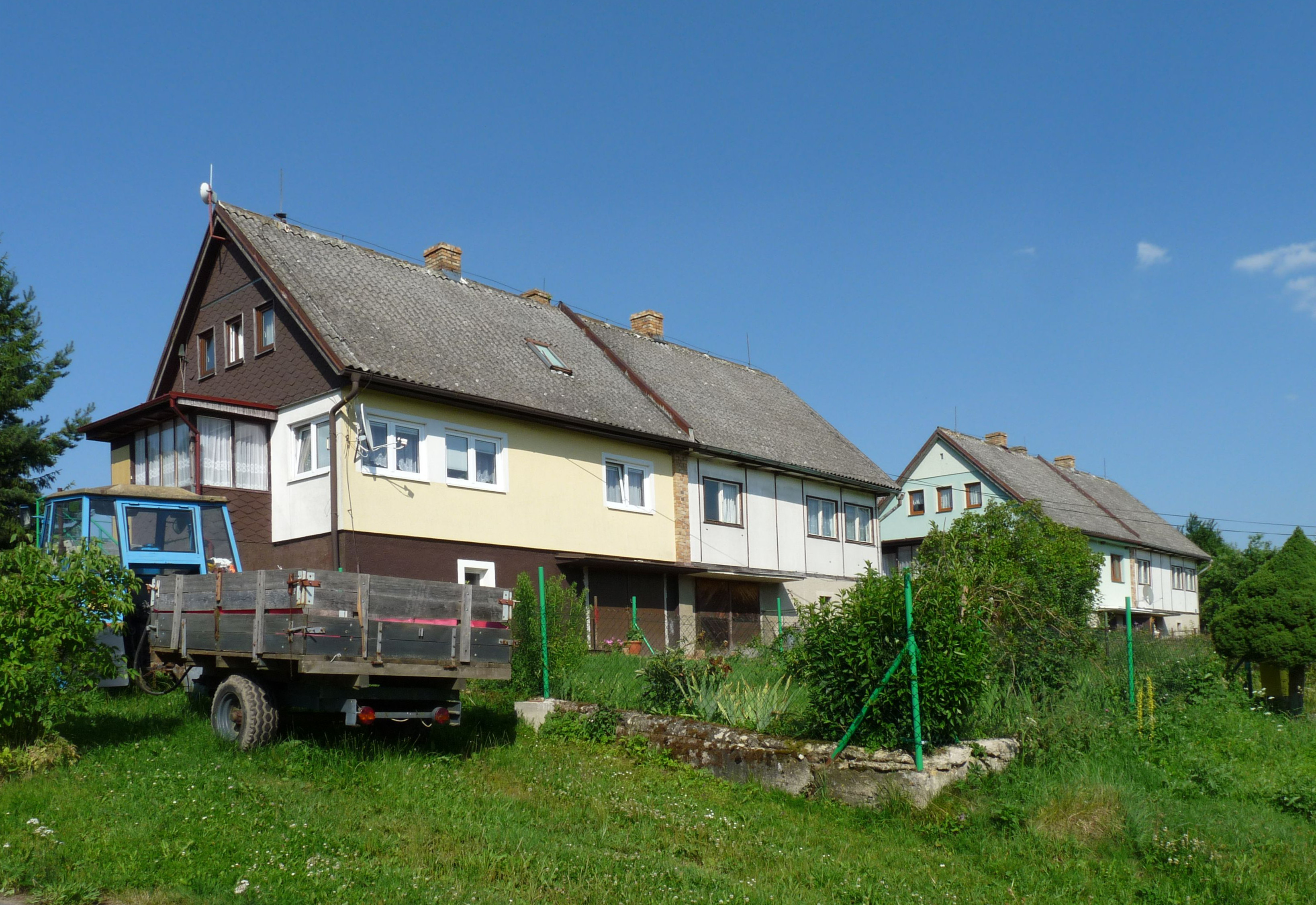 House No 30 in the village of Ktiš-Pila, Prachatice District, South Bohemian Region, Czech Republic.